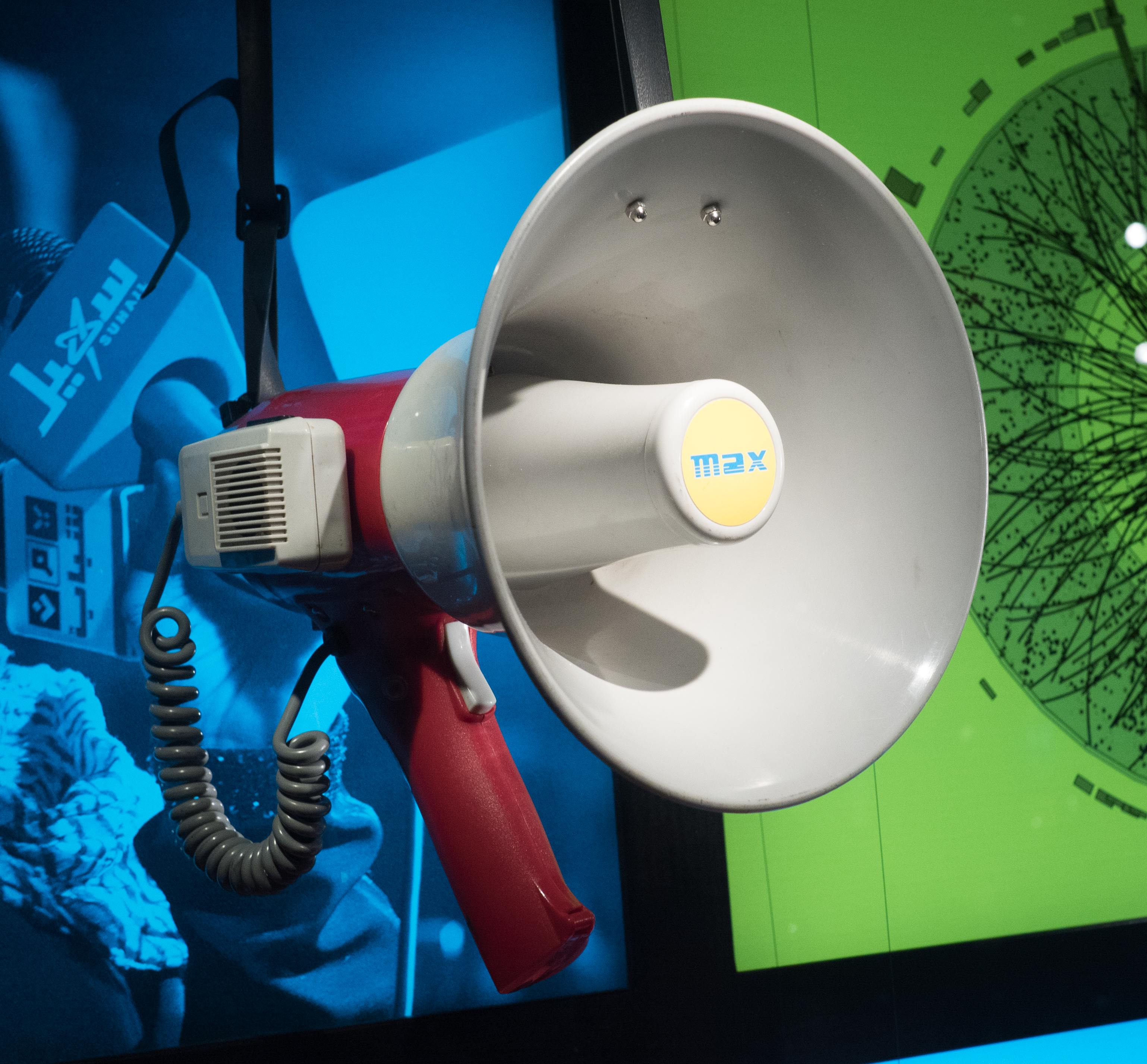 Tawakkol Karman's megaphone at the Nobel Museum in Stockholm